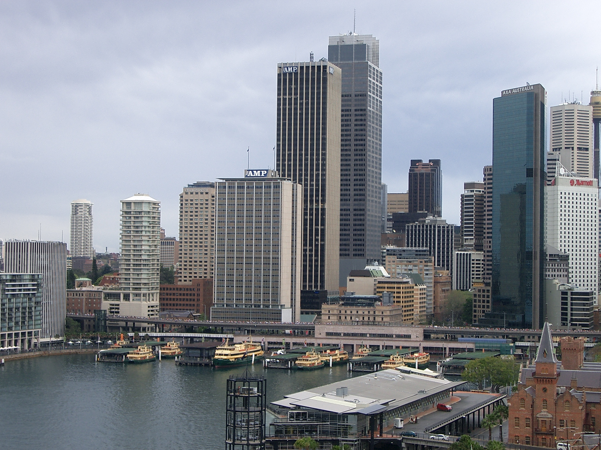 Syndey CBD as seen from the Harbour Bridge